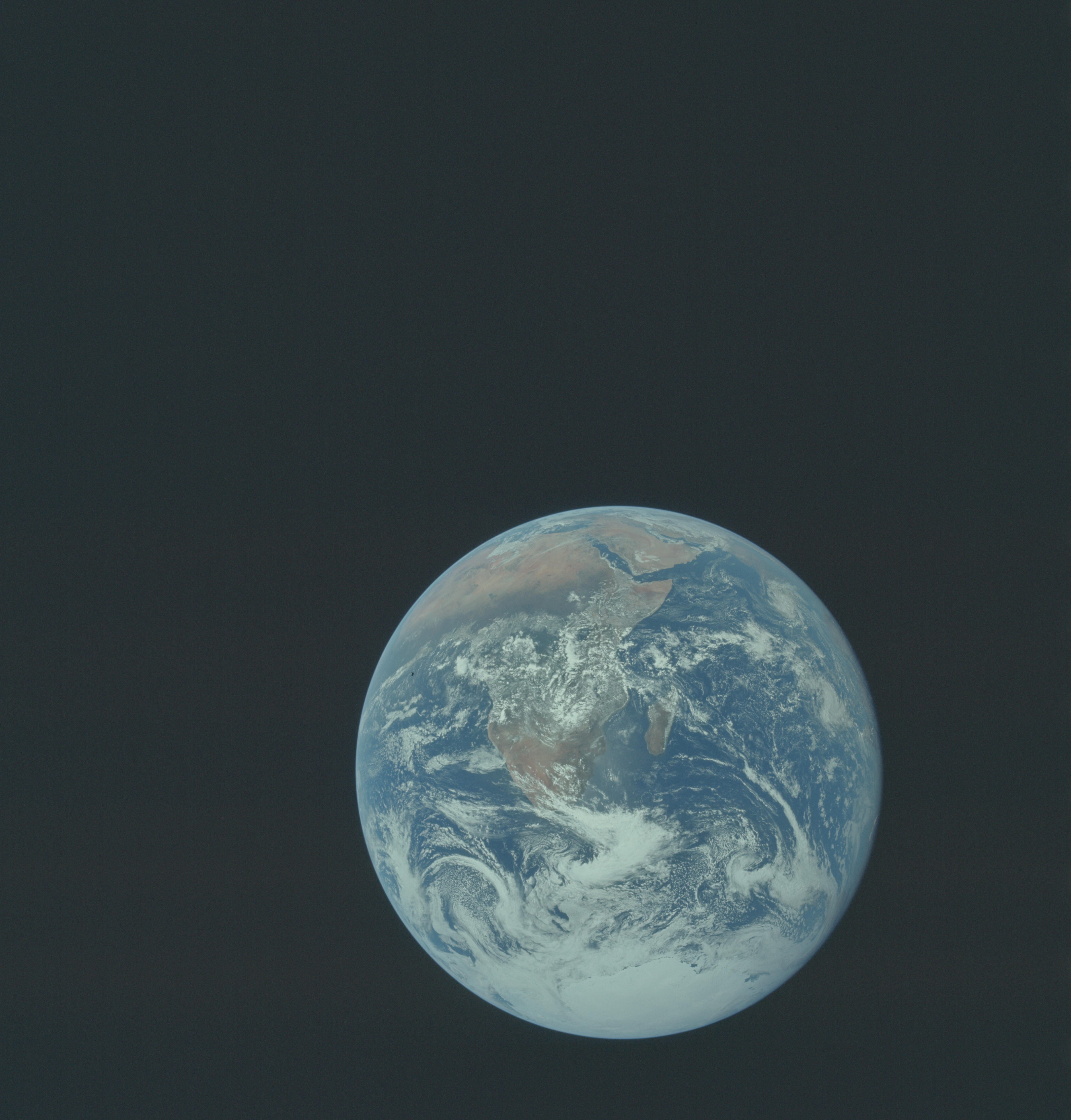 View of the Earth as seen by the Apollo 17 crew traveling toward the moon. This translunar coast photograph extends from the Mediterranean Sea area to the Antarctica south polar ice cap. This is the first time the Apollo trajectory made it possible to photograph the south polar ice cap. Note the heavy cloud cover in the Southern Hemisphere. Almost the entire coastline of Africa is clearly visible. The Arabian Peninsula can be seen at the northeastern edge of Africa. The large island off the east coast of Africa is the Republic of Madagascar. The Asian mainland is on the horizon toward the northeast.